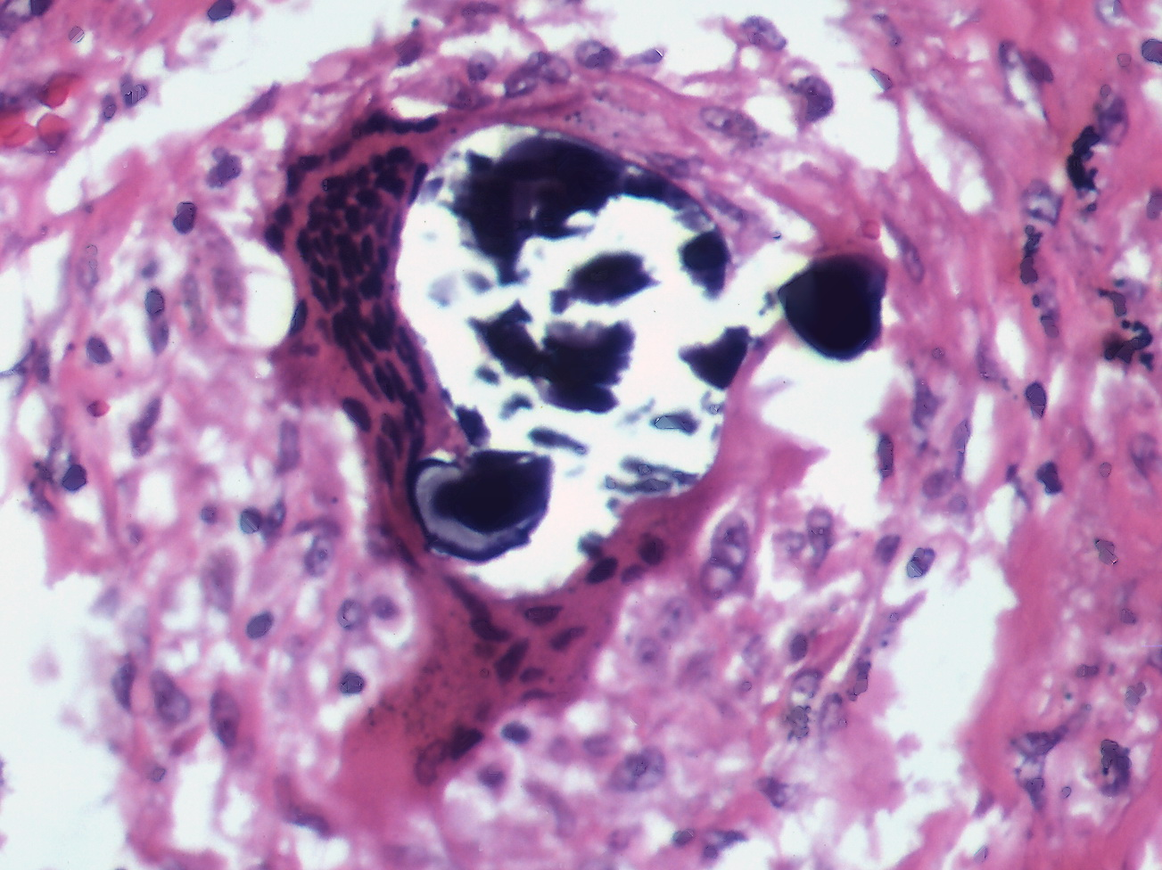 Schaumnann bodies, sometimes called conchoidal bodies, are large concentric calcifications that form within the cytoplasm of giant cells in sarcoidosis and other granulomatous disorders and often contain refractile calcium oxalate crystals. In this image the there are multiple Schaumann bodies within a giant cell. Although usually intracytoplasmic they may, if numerous or very large, be extruded into the extracelular space.